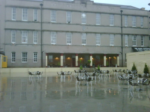 Griffith College's former campus at Cove Street, Sullivan‘s Quay, Cork, Co. Cork.